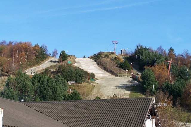 Ski Slopes at the Ski Village, Sheffield - 2 1124996 1125075 1125091